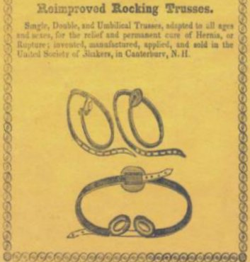 Rocking Trusses medical device invented by Thomas Corbett